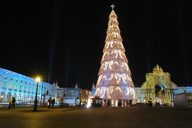 Bigest Christmas Tree in Europe Photography by Osvaldo Gago.